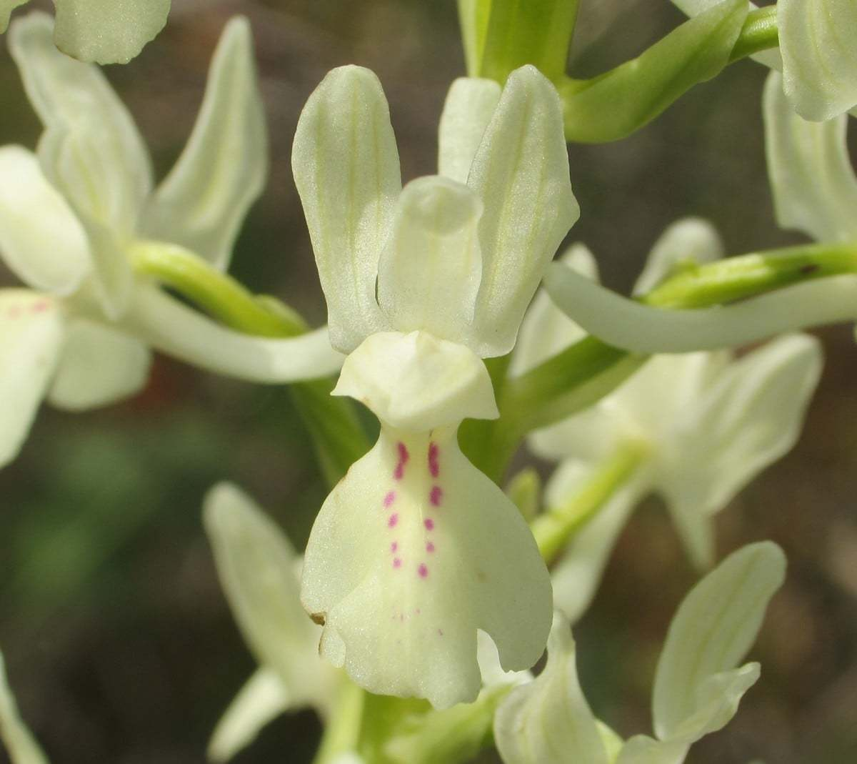 Orchis provincialis flower